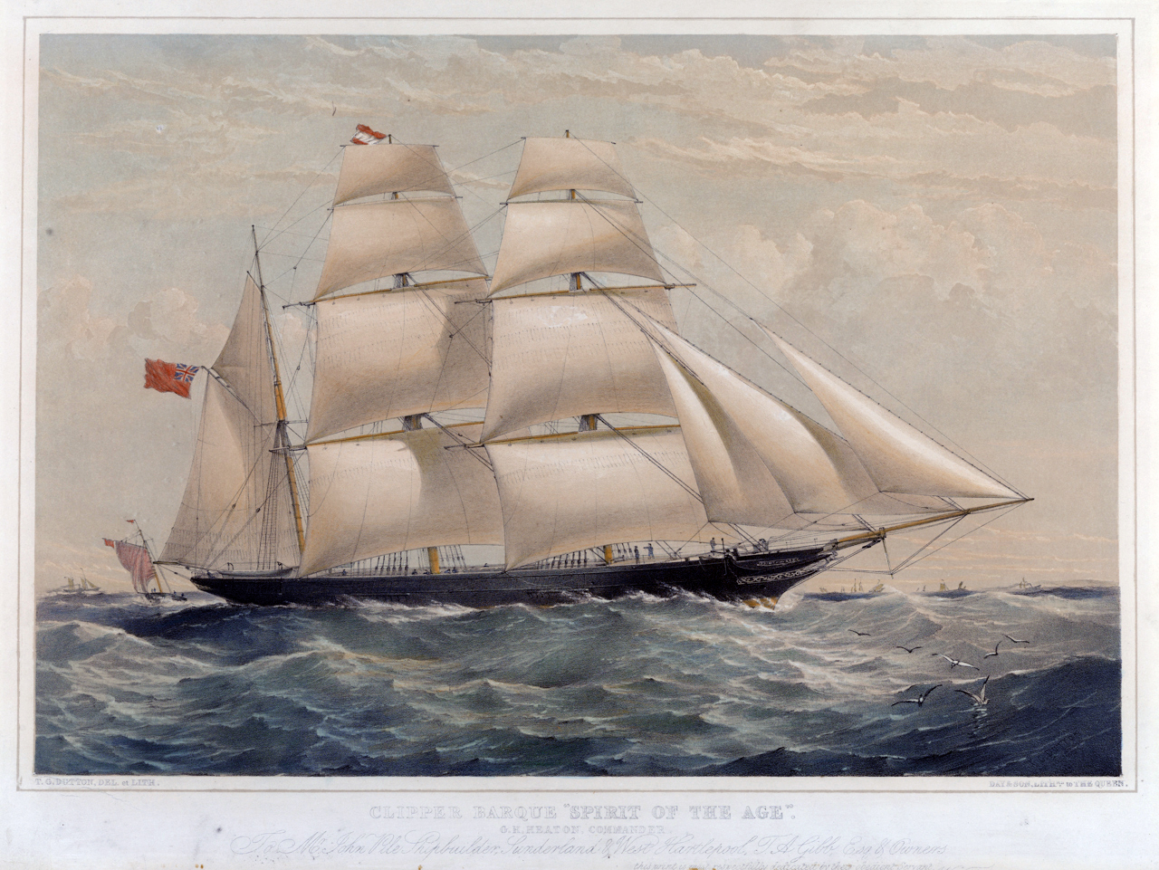 Clipper barque Spirit of the Age (ship, 1854) [British] G. H. Heaton commander. Builder John Pile, Sunderland & West Hartlepool. PAH0633. Day & Son. Publisher: William Foster.